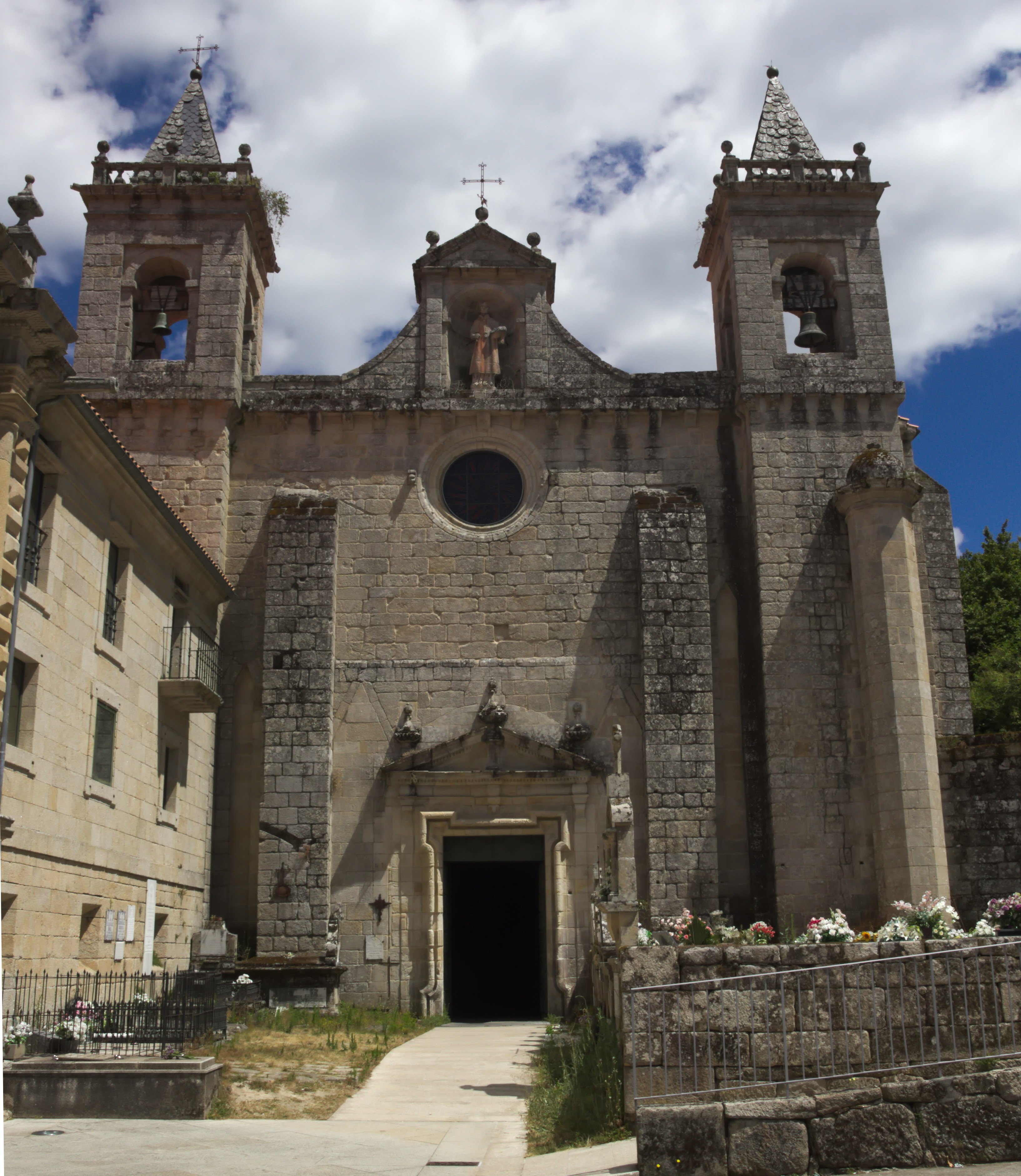 Church of the inn of San Estevo, in Ribas do Sil, Galicia, Spain.